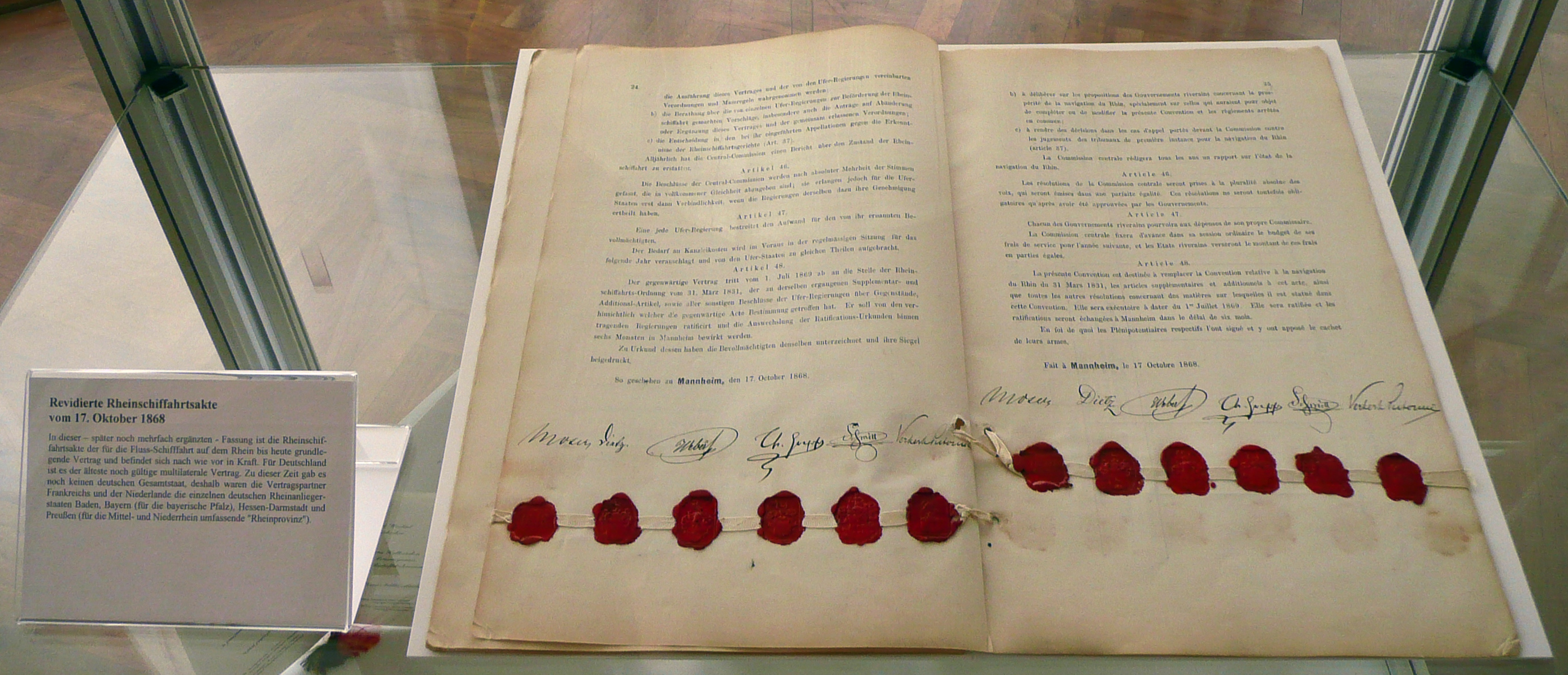 Revised Convention for Rhine Navigation; shown at the open day at the Federal Ministry of Transport, Building and Urban Development in Berlin on 21/08/2011